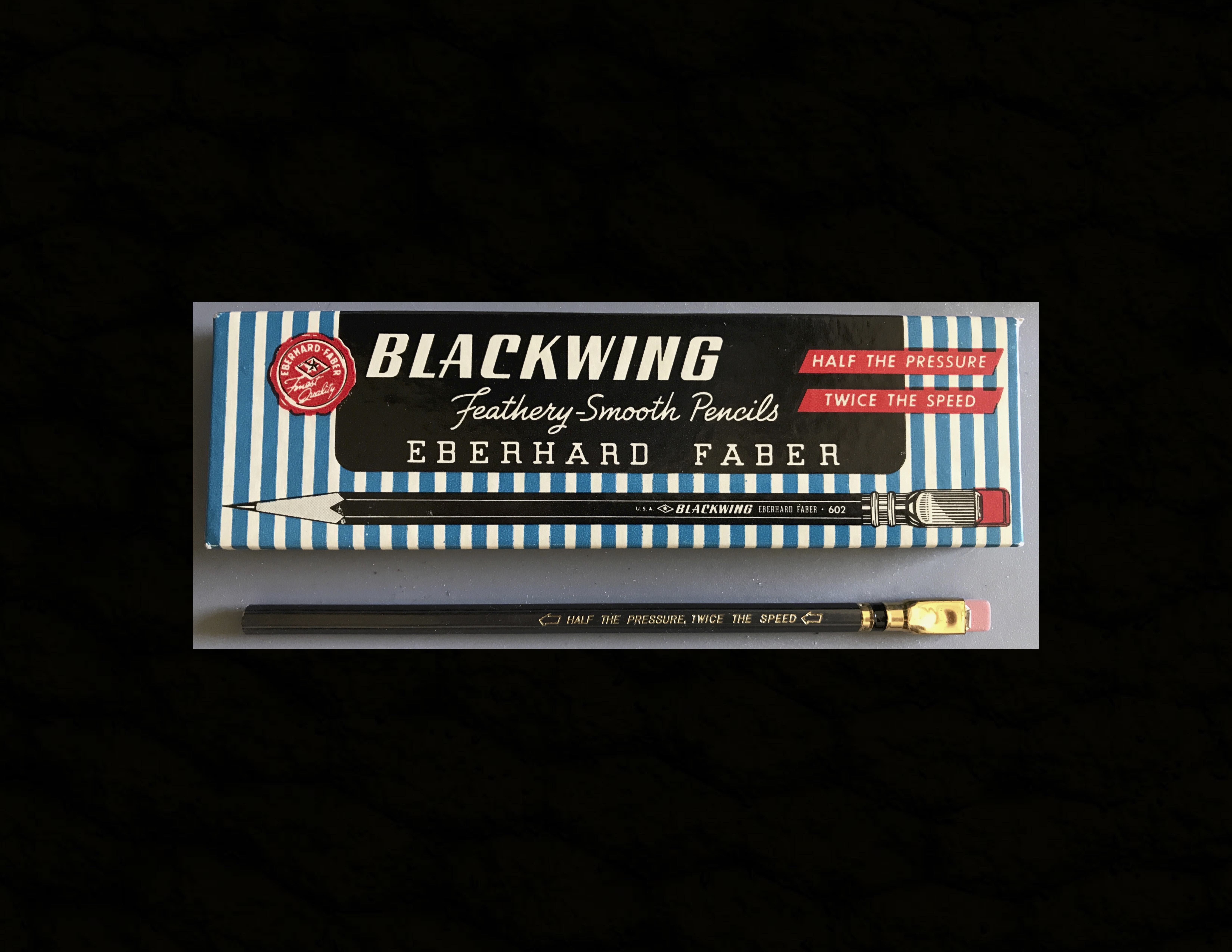 Fourth Generation Blackwing 602 discontinued